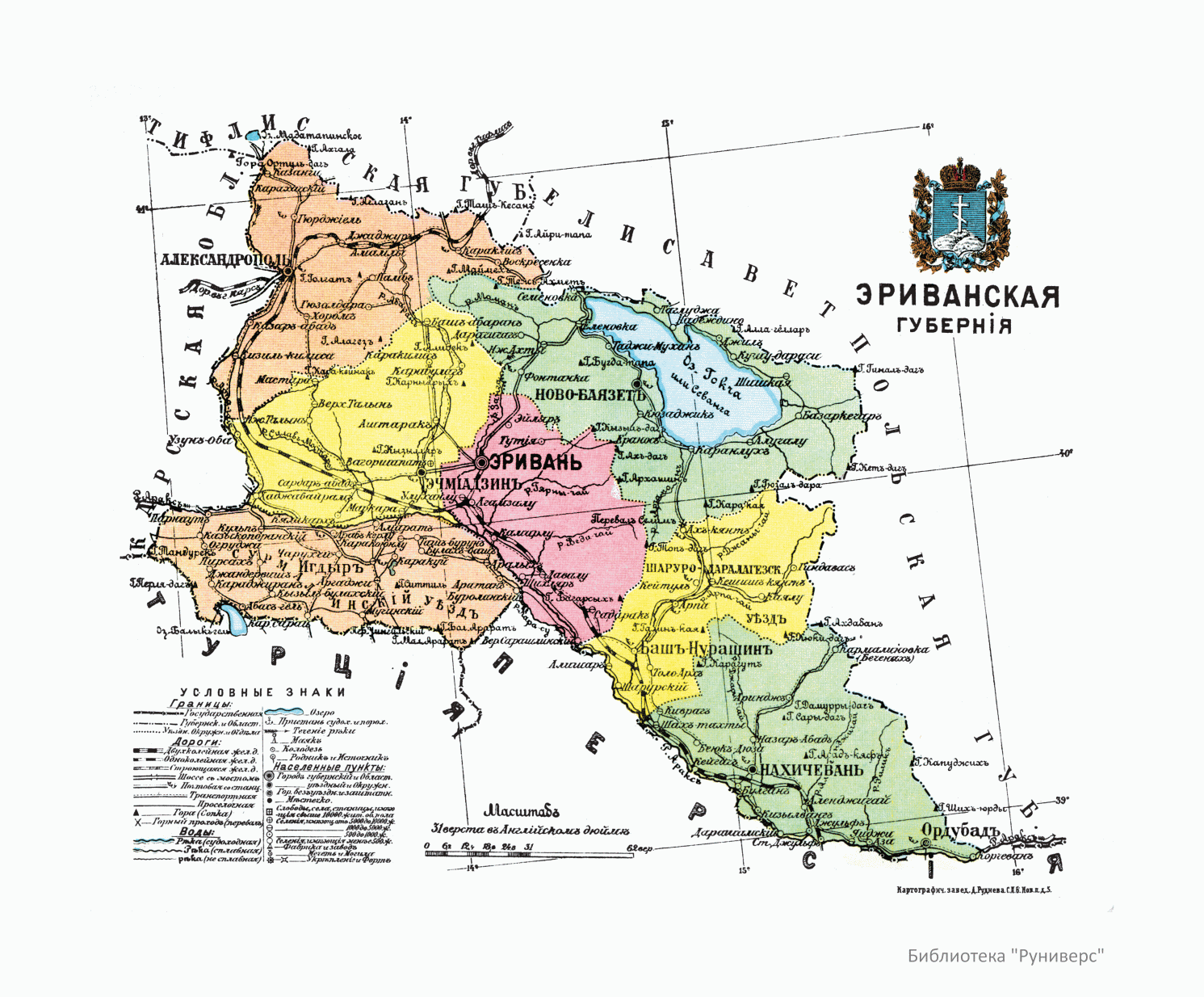 Administrative map of Kars Oblast: showing the main settlements.